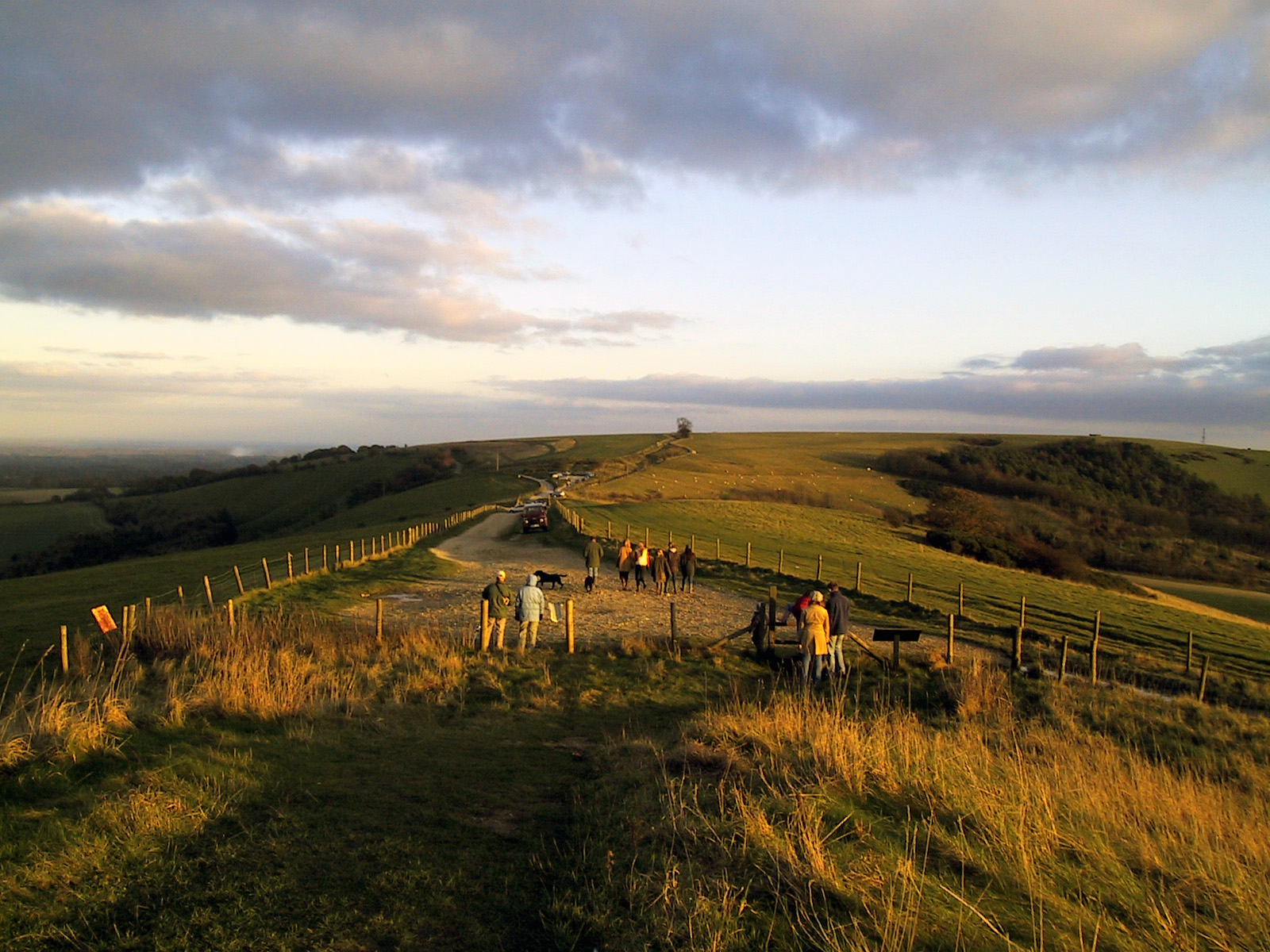 Walbury Hill and hill fort on the border of Inkpen & Combe, Berkshire, from Gallows Down